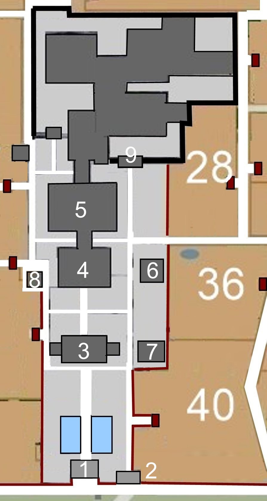 Centerpart of Myoshin-ji temple, Kyoto